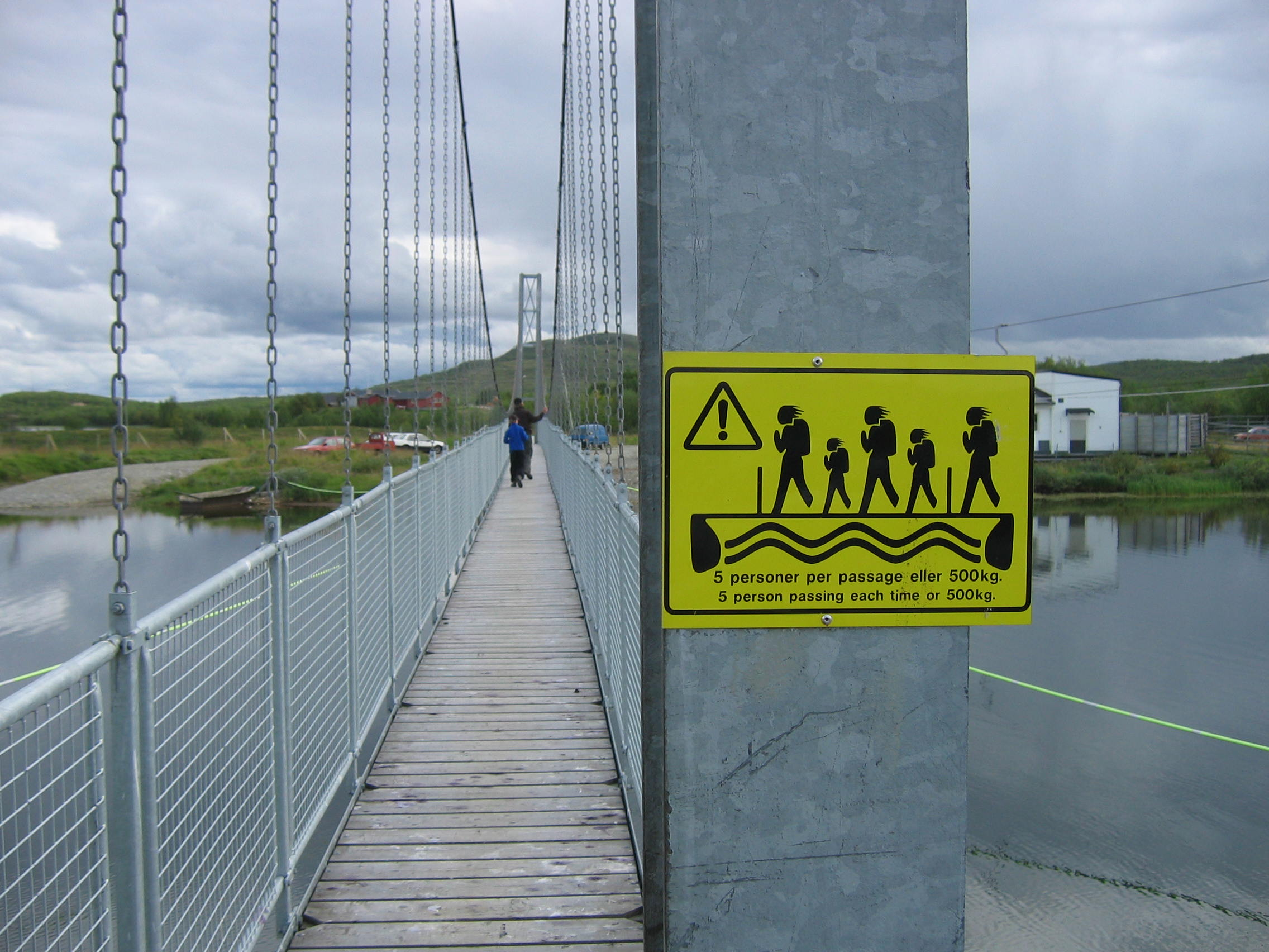 Peera suspension bridge over the river of Könkämäeno in Enontekiö, Finland.